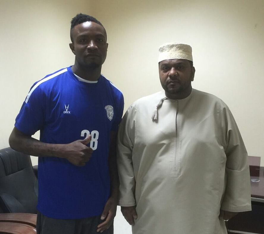 Cédric Tchoumbé with Board member of Sur Club after signing a contract. 23 September 2015 Sur Club, Sur, Oman Photographer email id